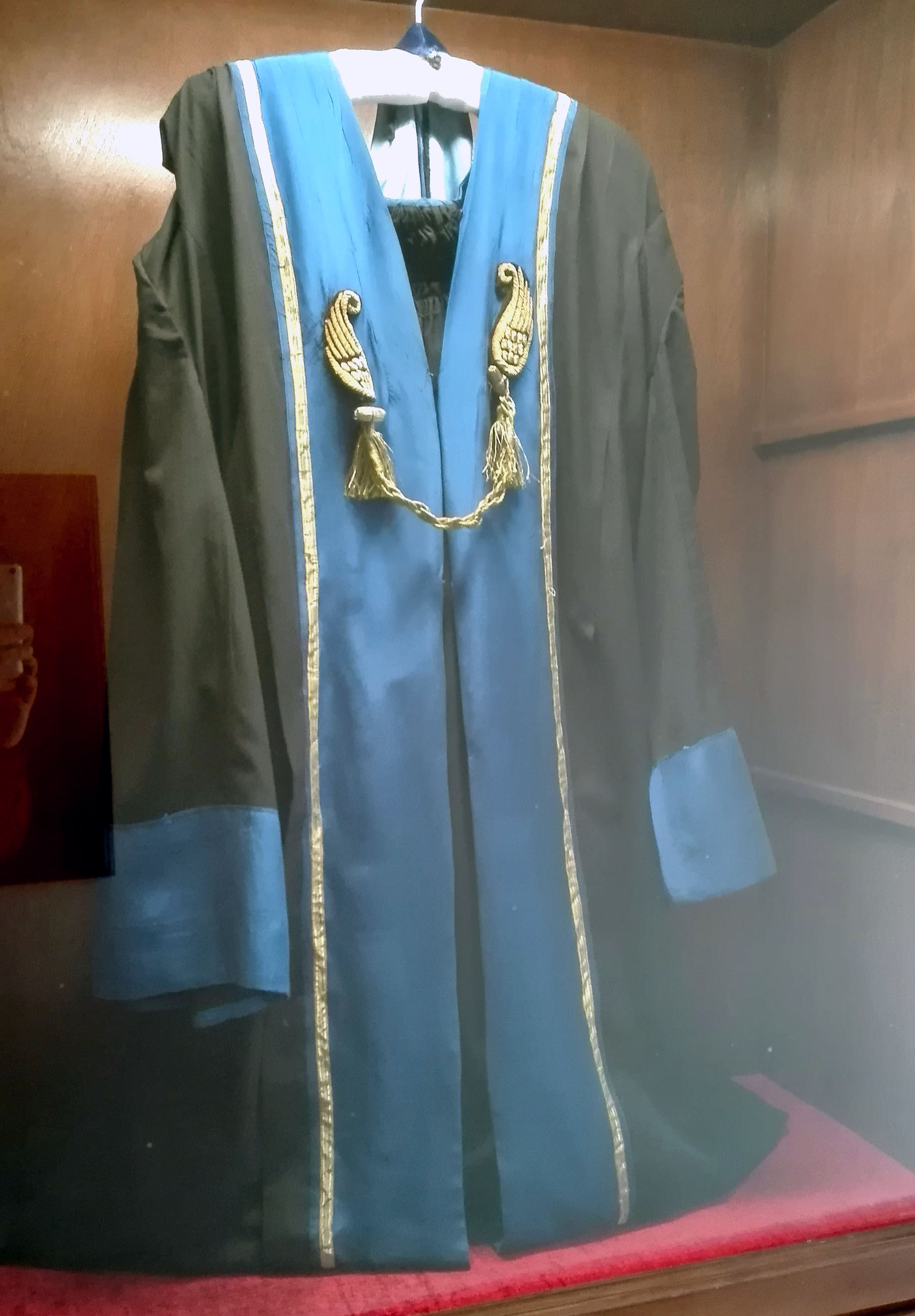 Old academic robe of Tehran University from Moqadam museum